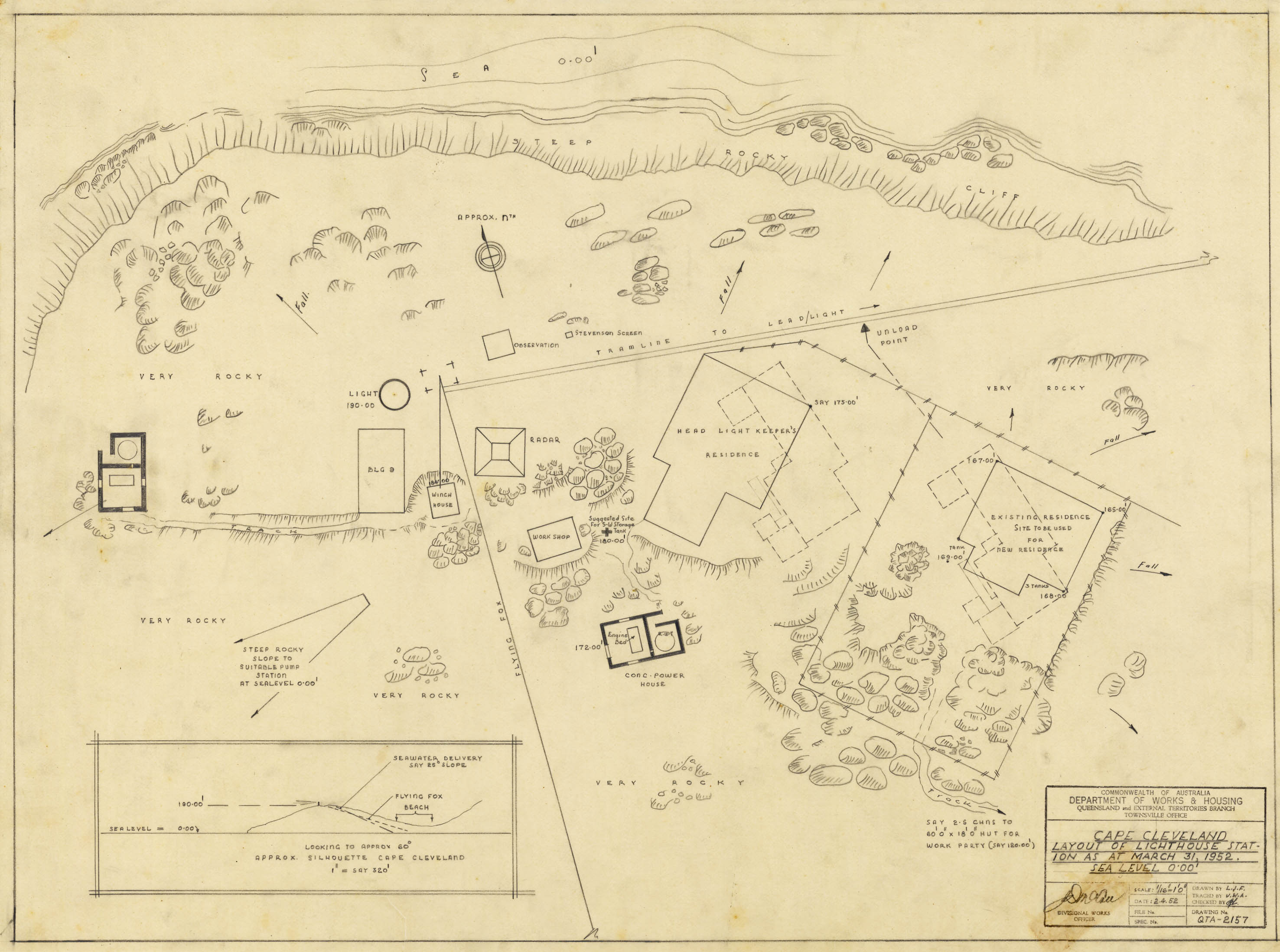 Cape Cleveland Lighthouse - Layout of Lighthouse Station, 1952